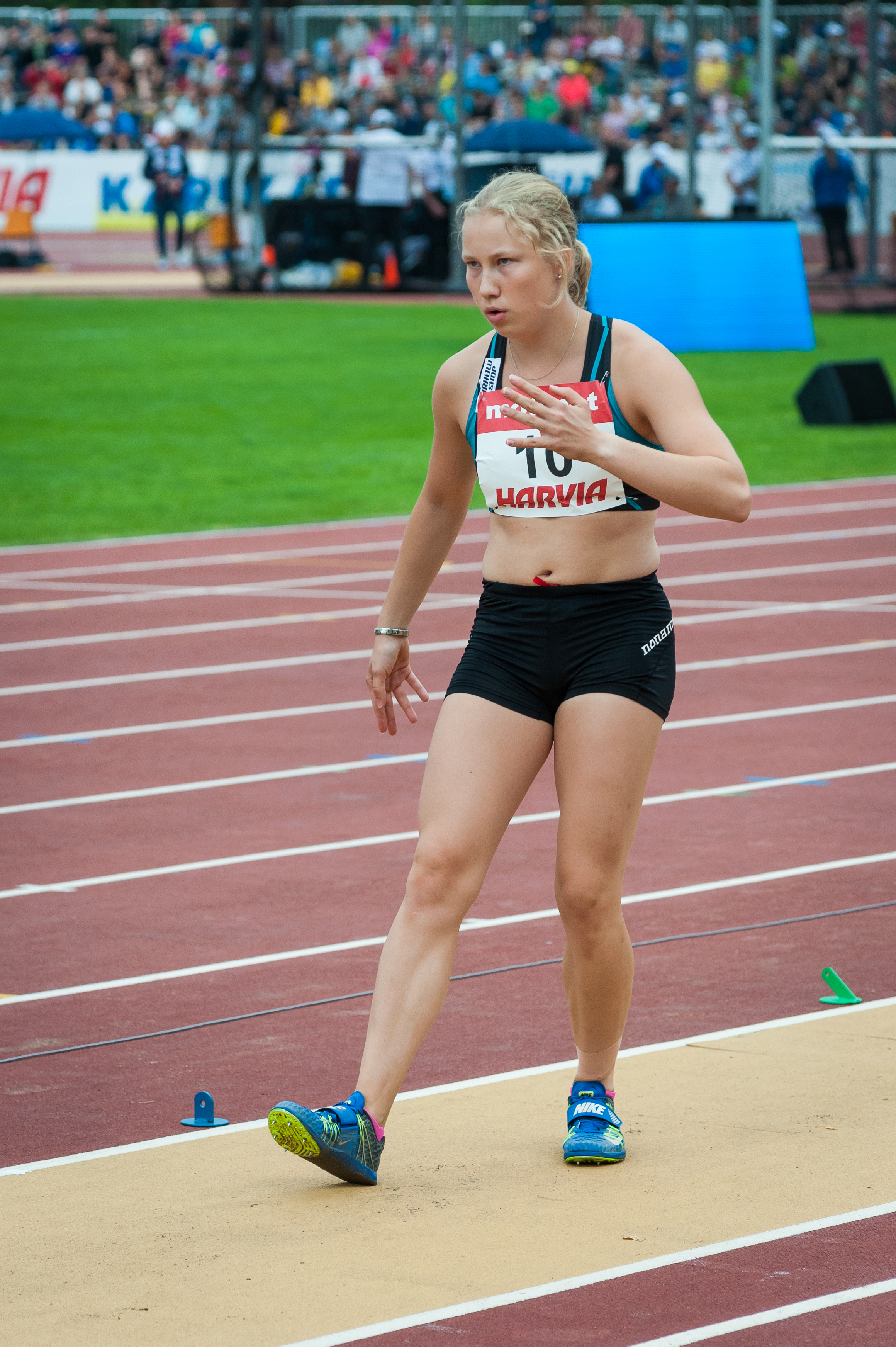 Women's triple jump competition at the 2018 Kalevan Kisat, the Finnish championships in athletics, in Jyväskylä, Finland.